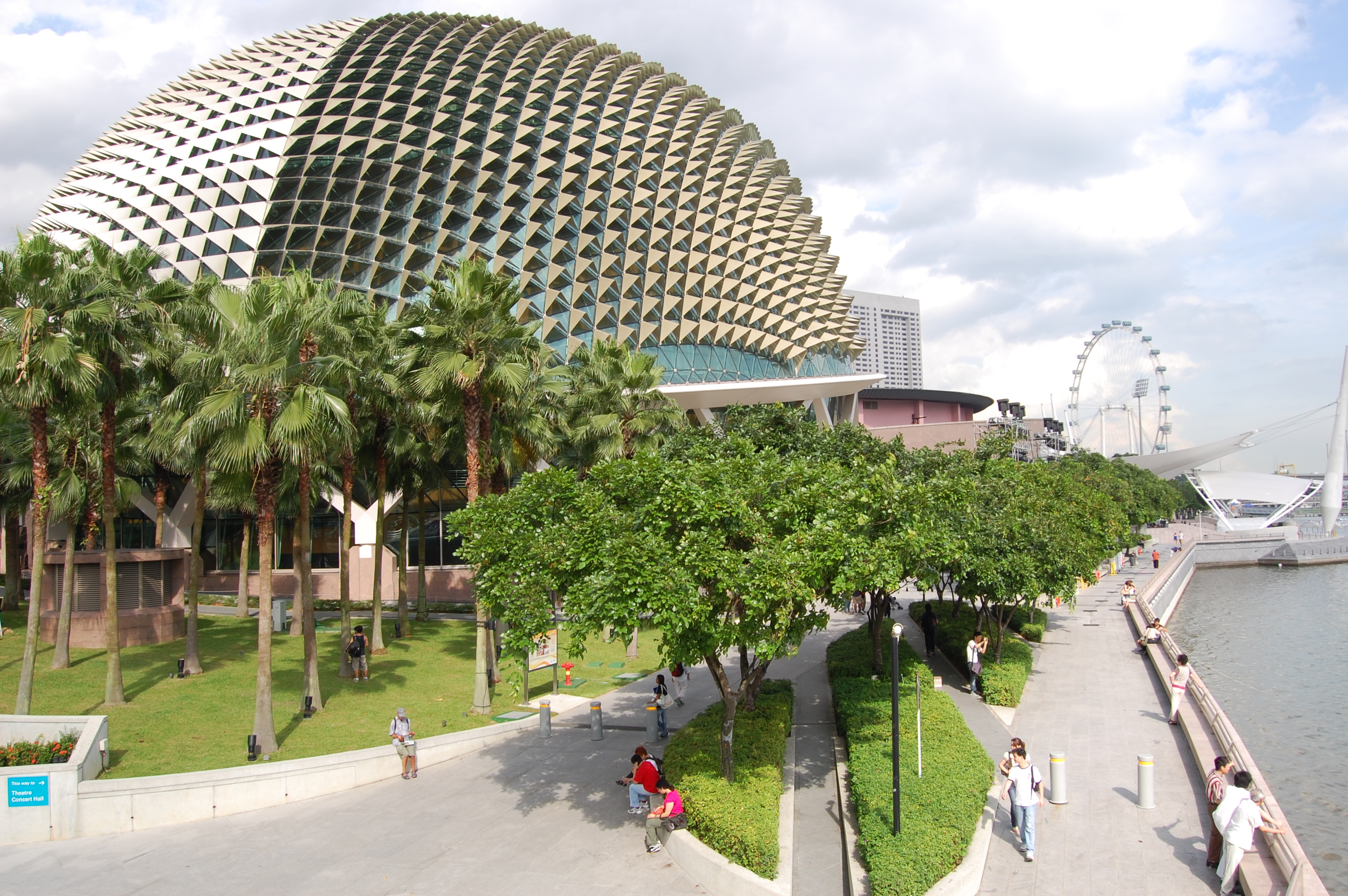 Esplanade – Theatres on the Bay, Singapore.